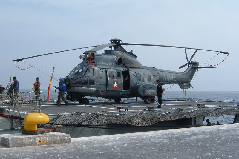 A Chilean Navy AS 532SC Cougar helicopter on the flight deck of the BACH Williams - UNITAS 47-06 - Mejillones, Chile